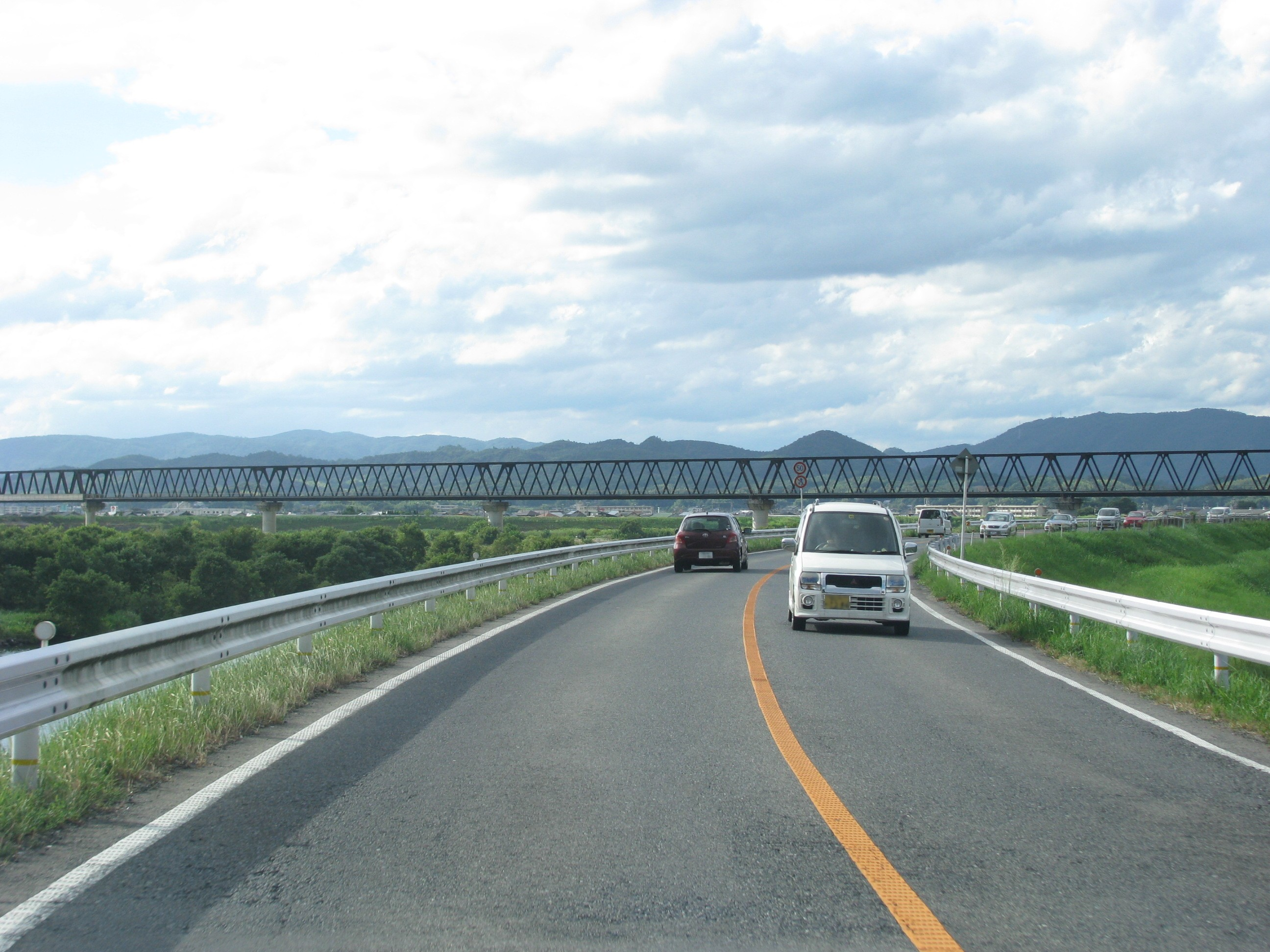 The Okayama Prefectural Route 24. This place is Sōja, Okayama, Japan.